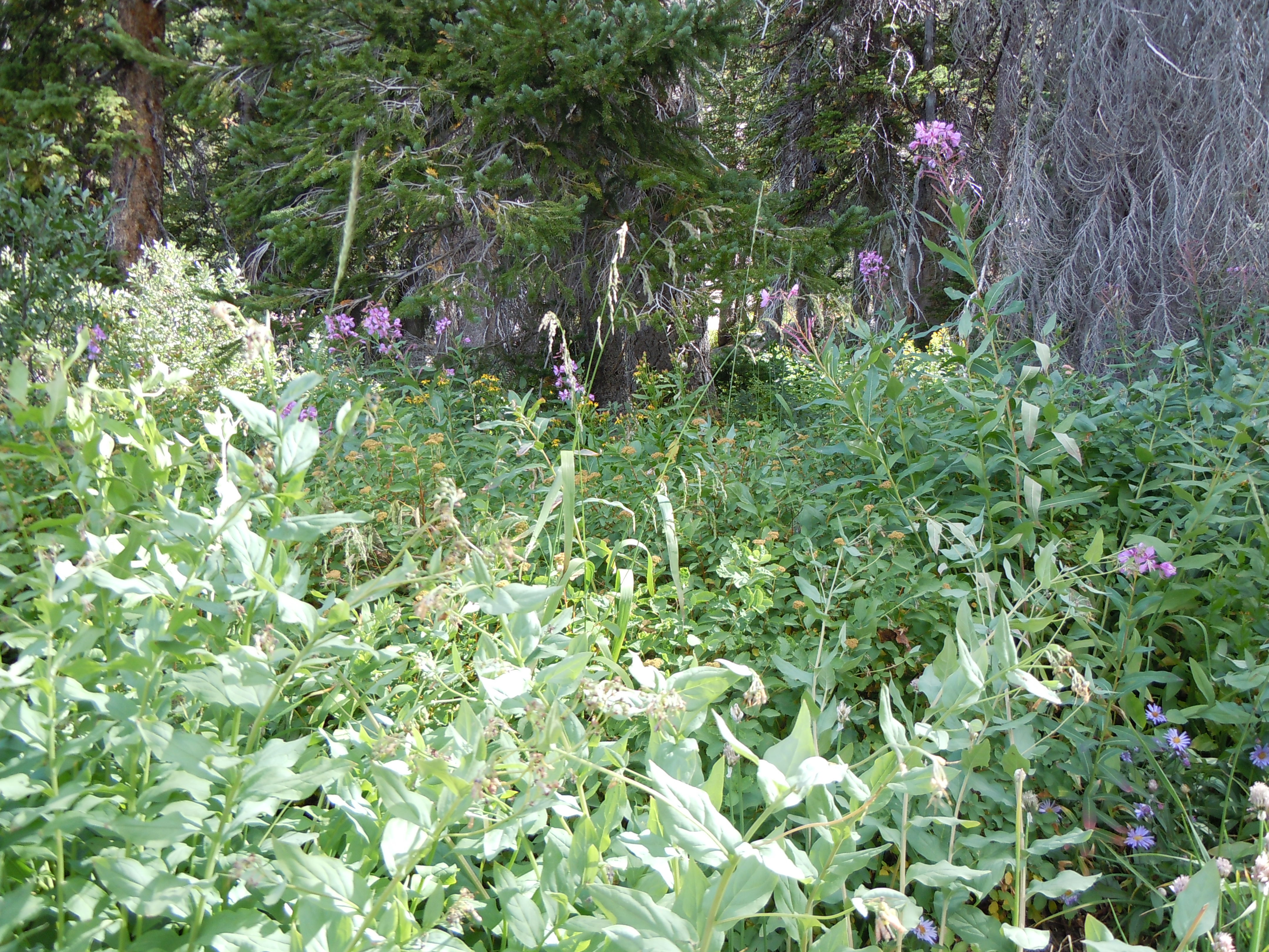 Similar to an Agrostis (bentgrass) but with disarticulation below the glumes, a drooping inflorescence, and broad leaf blades (1 cm or broader).